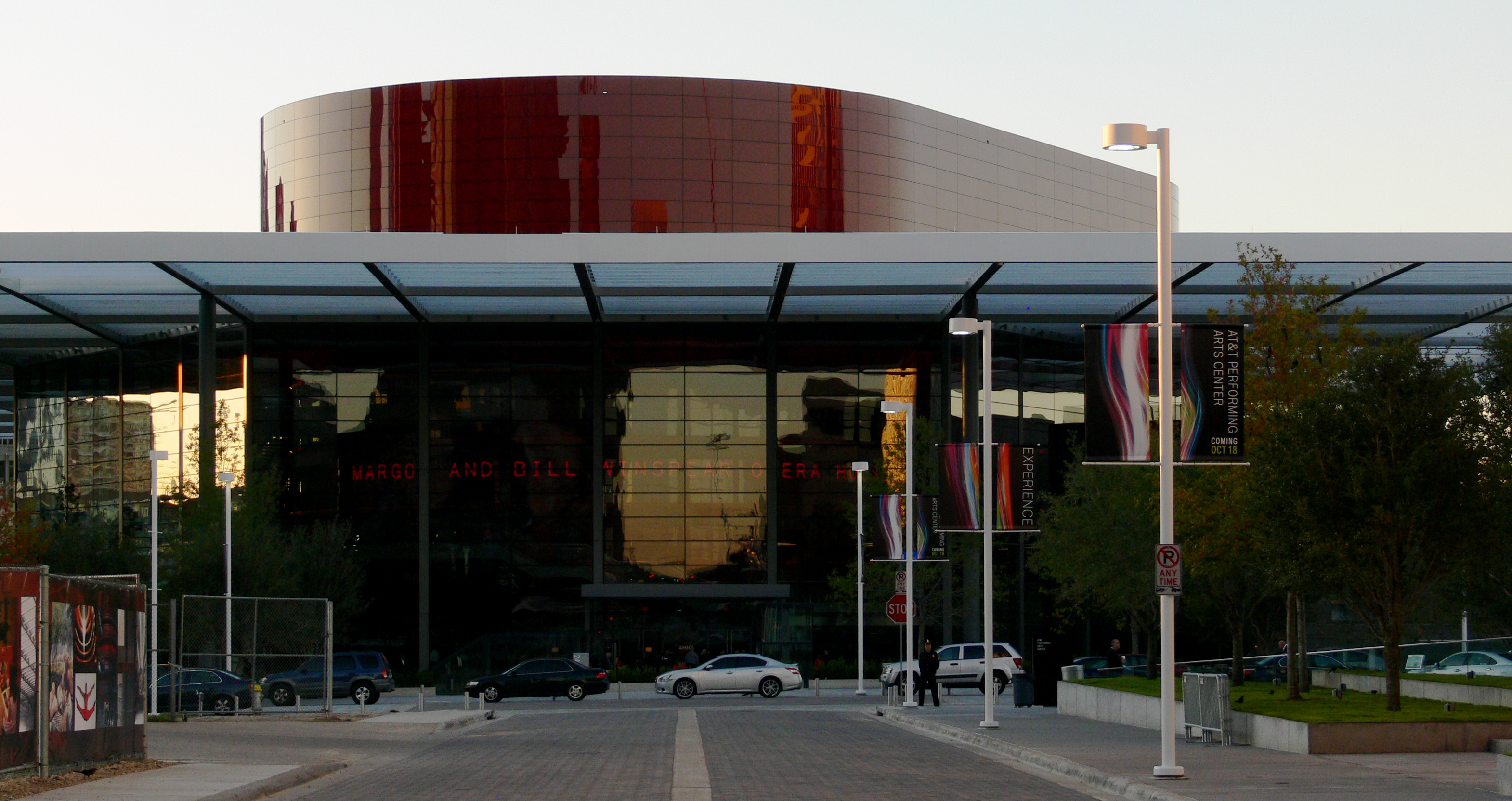 Dallas, Texas: AT&T Performing Arts Center, Margot and Bill Winspear Opera House